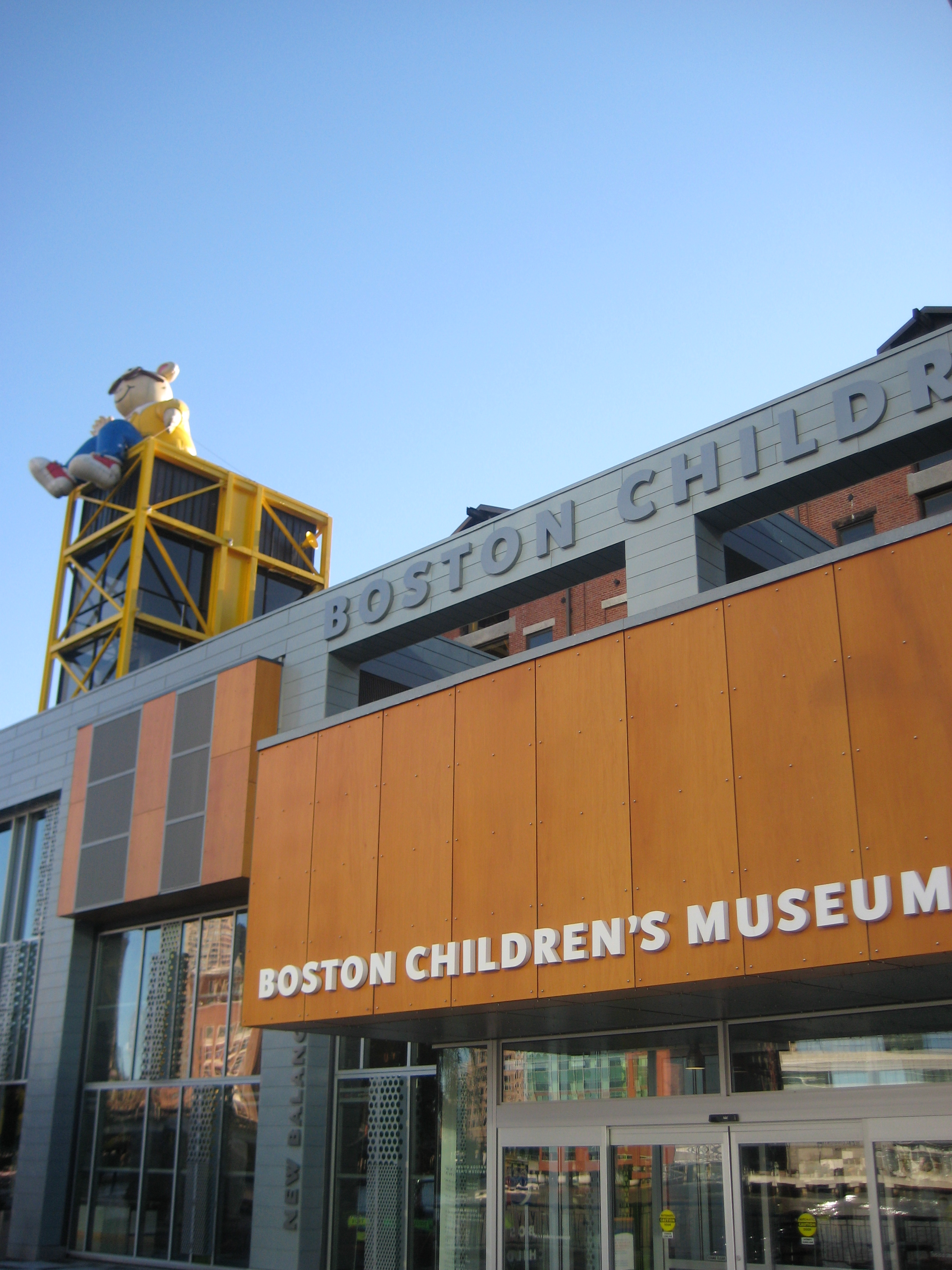 The Boston Children's Museum in Boston, Massachusetts, United States. Note inflatable representation of Arthur the Aardvark on the roof. October 2007 photo by John Stephen Dwyer